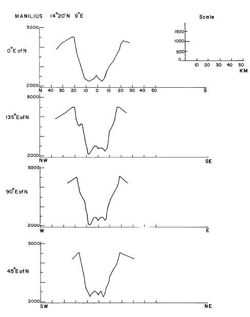 Manilius crater cross section